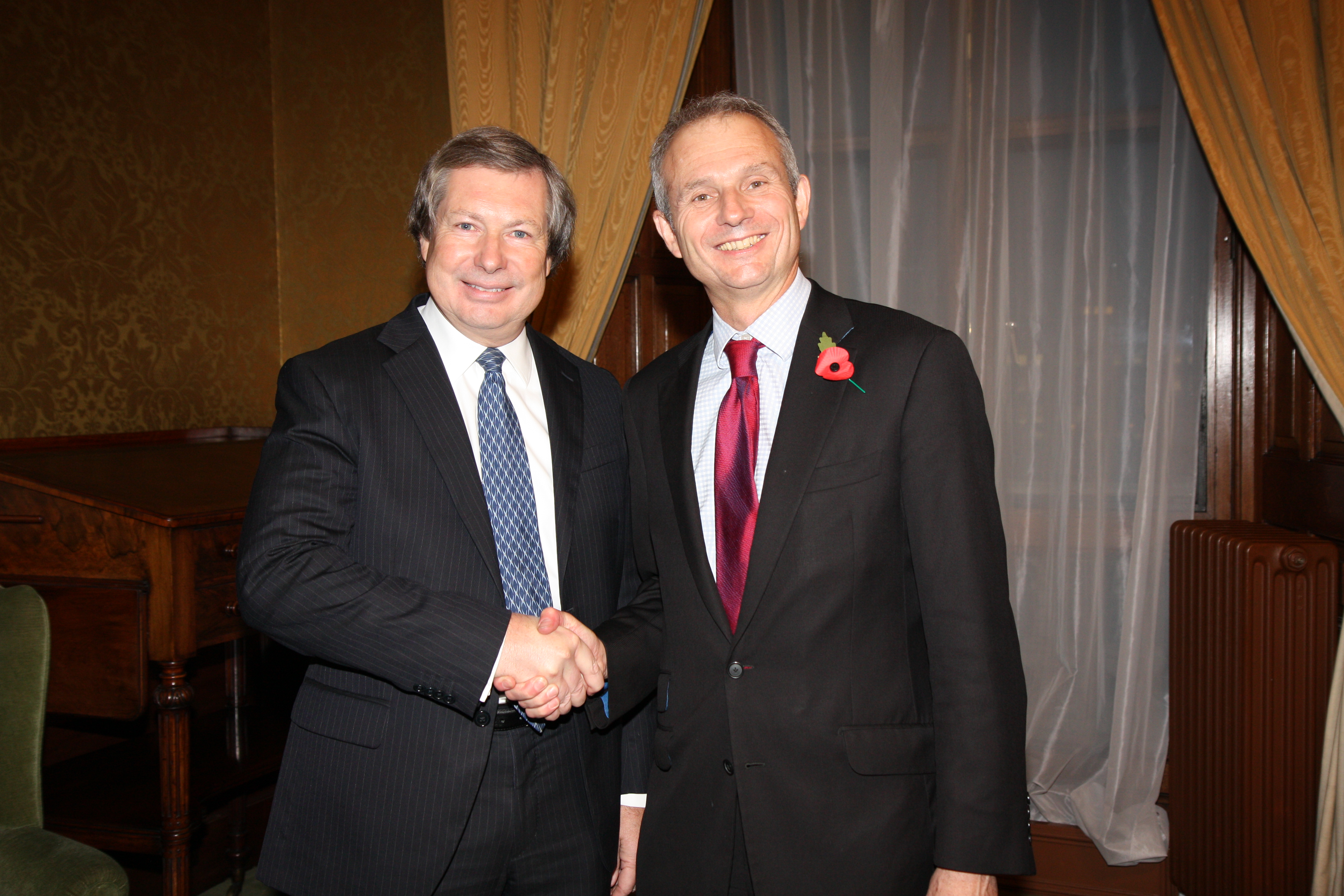 Minister for Europe David Lidington meeting James Warlick, Co-Chair of the Minsk Group in London, 28 October 2014.